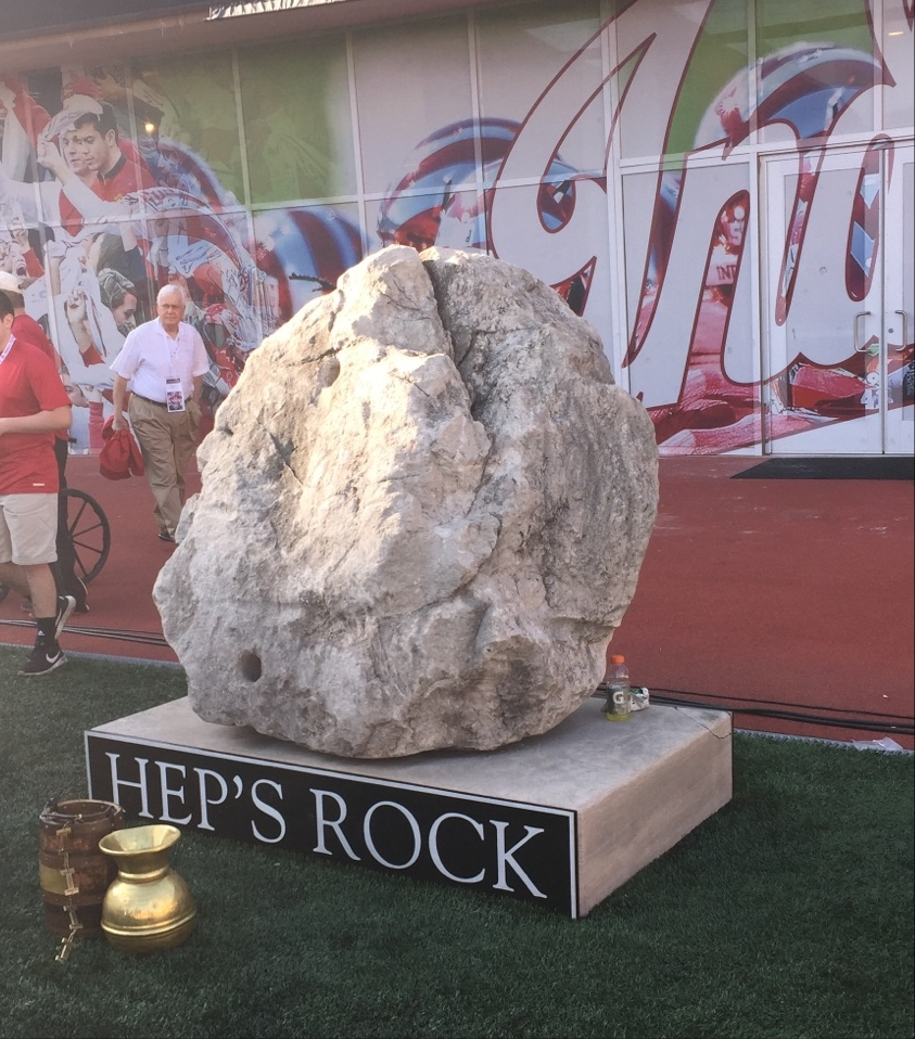 Hep's Rock